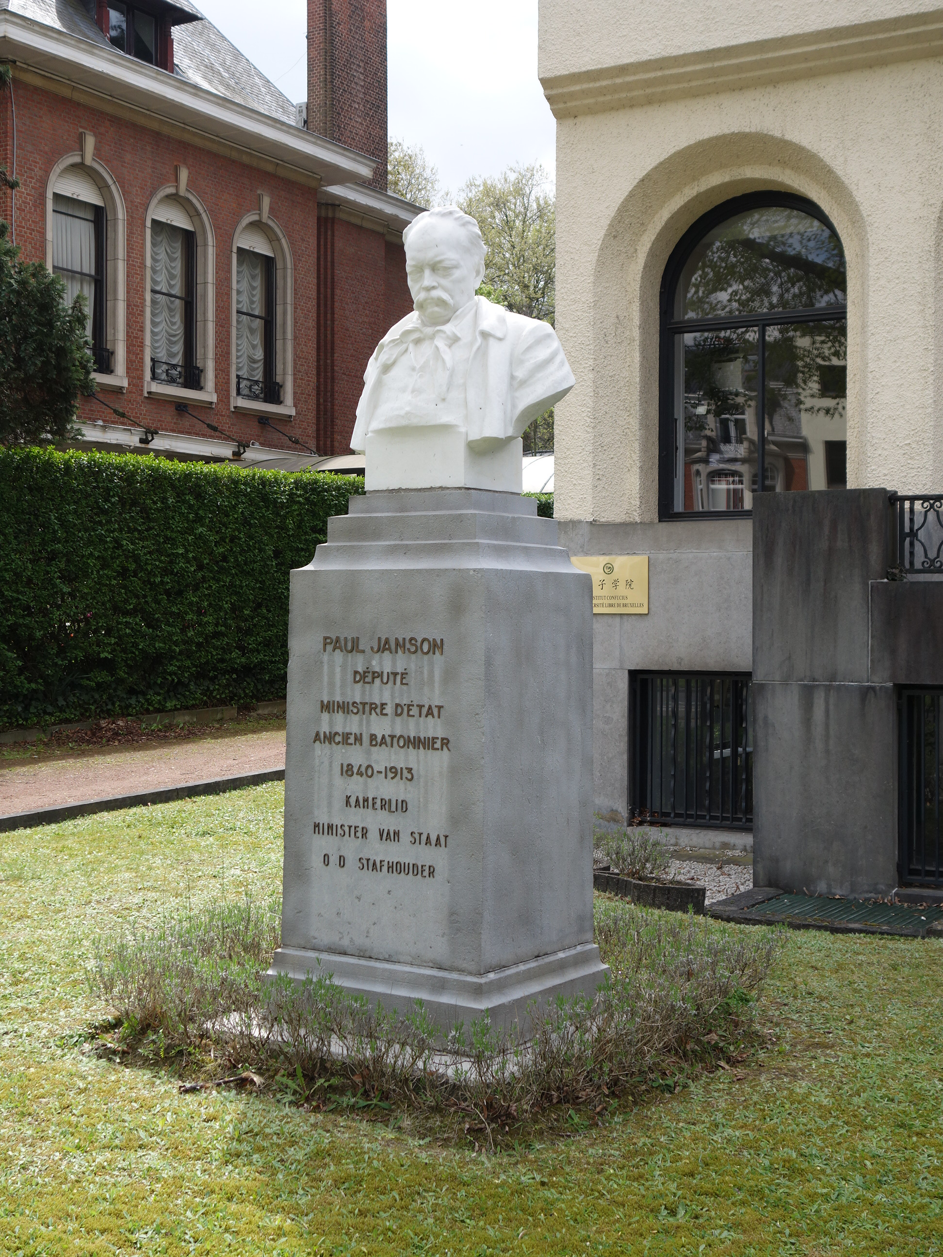 Paul Janson bust, Franklin Rooseveltlaan, Brussels